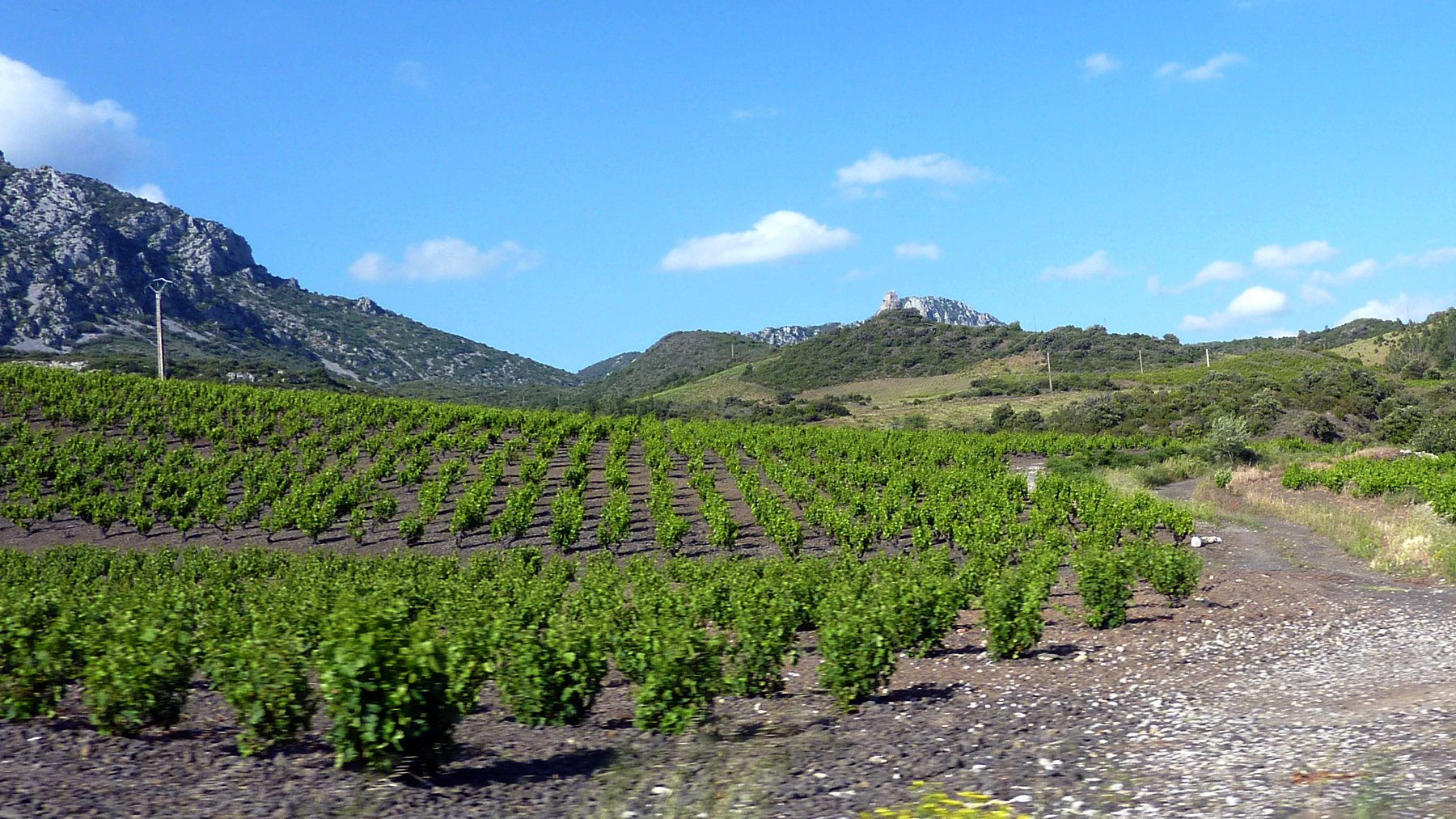 Maury AOC, Queribus, (département of Pyrénées-Orientales, Languedoc-Roussillon région, France)